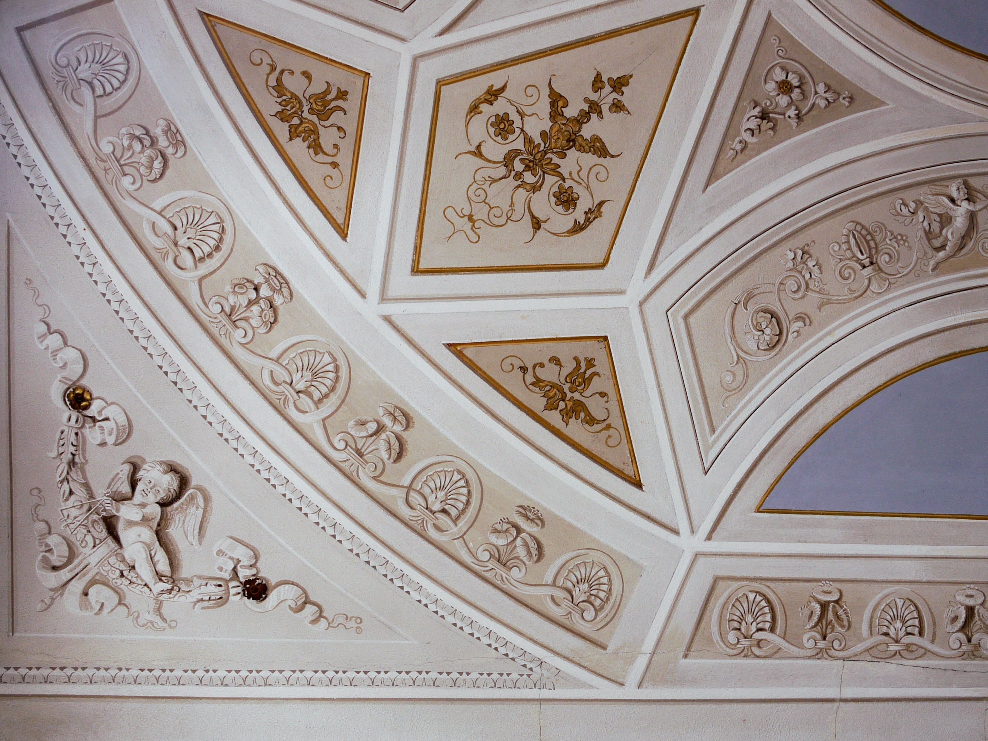 Villa Folco, Meolo. Affresco del piano nobile (part.)